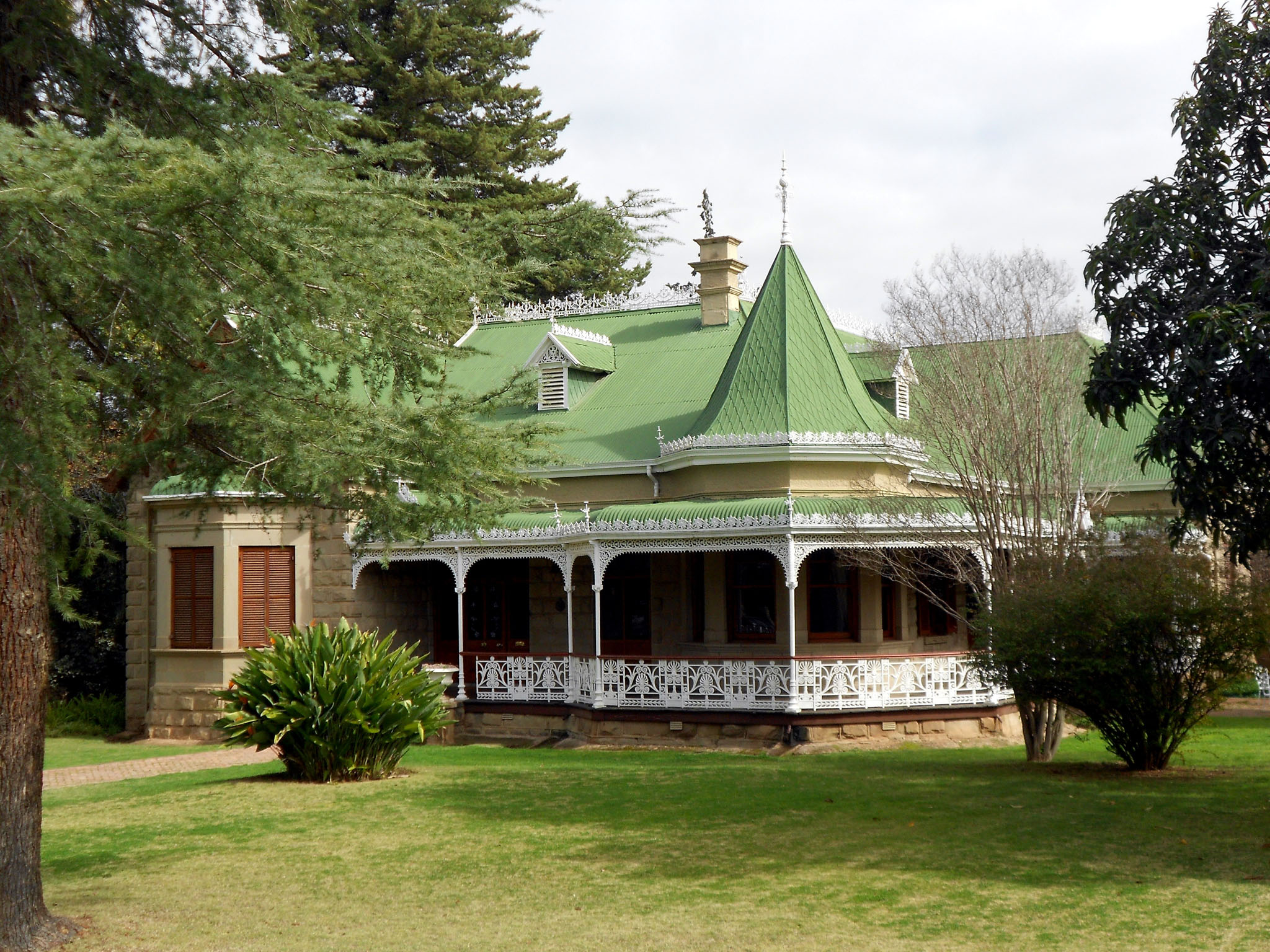 This media shows a South African Protected Site with SAHRA file reference 9/2/068/0021.